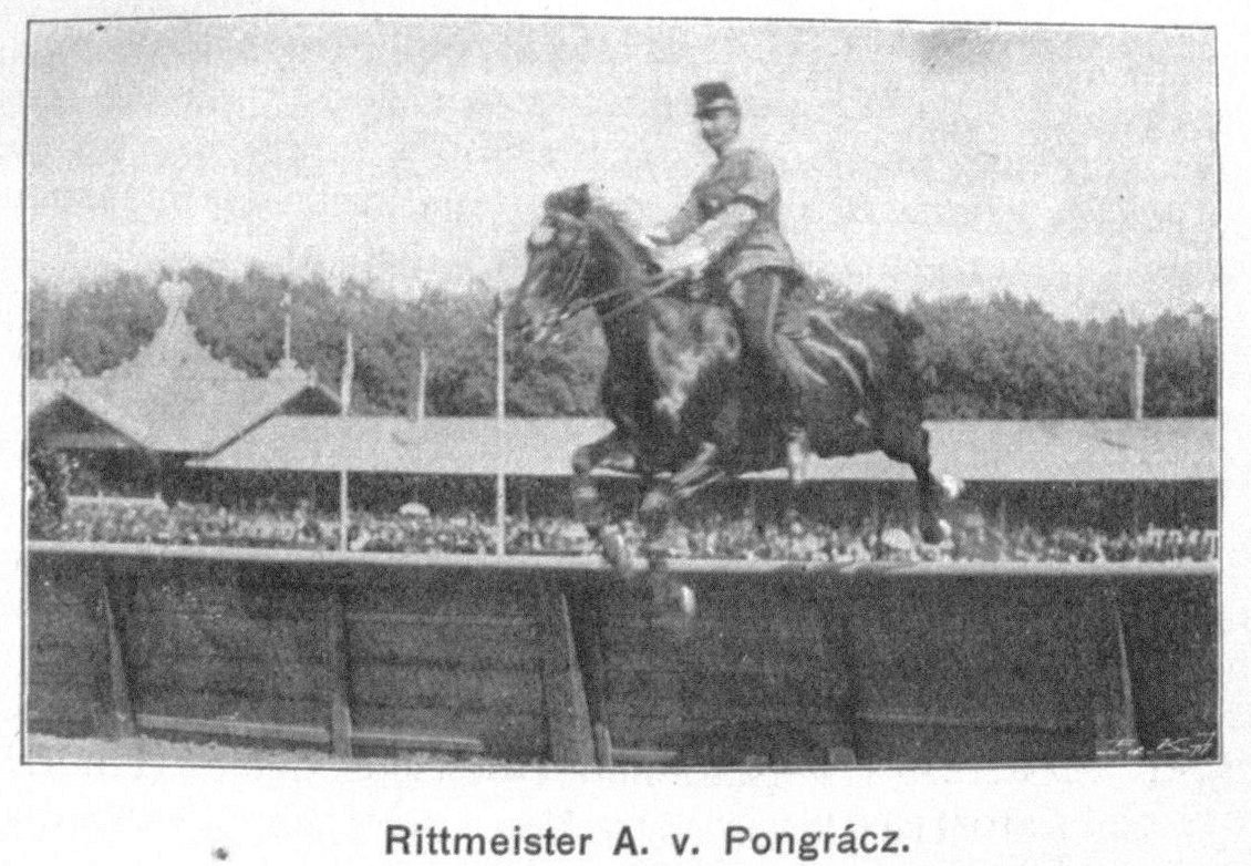 Arthur von Pongracz (1864-1941), Austrian equestrian rider.